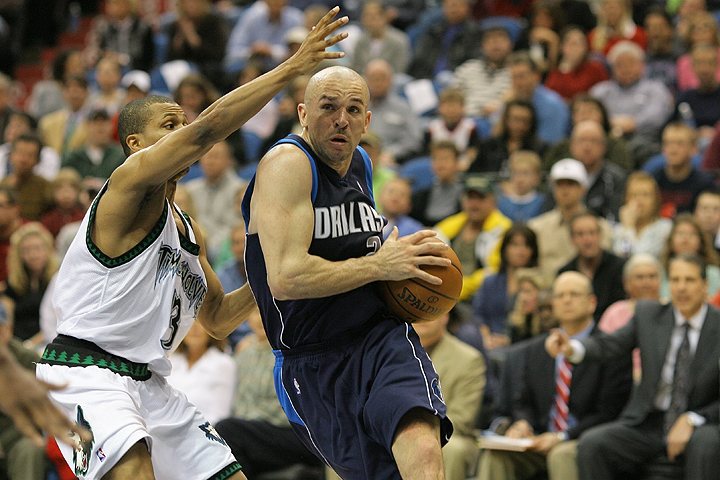 NBA player Jason Kidd of the Dallas Mavericks drives to the basket during a game against the Minnesota Timberwolves.